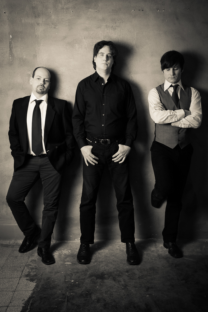 Dawnstar photo